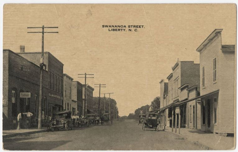 Liberty Historic District, Roughly along west of Norfolk. Image courtesy of the North Carolina Collection, University of North Carolina at Chapel Hill.